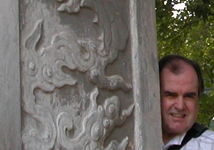 Manuel Casimiro Vietnam 2008